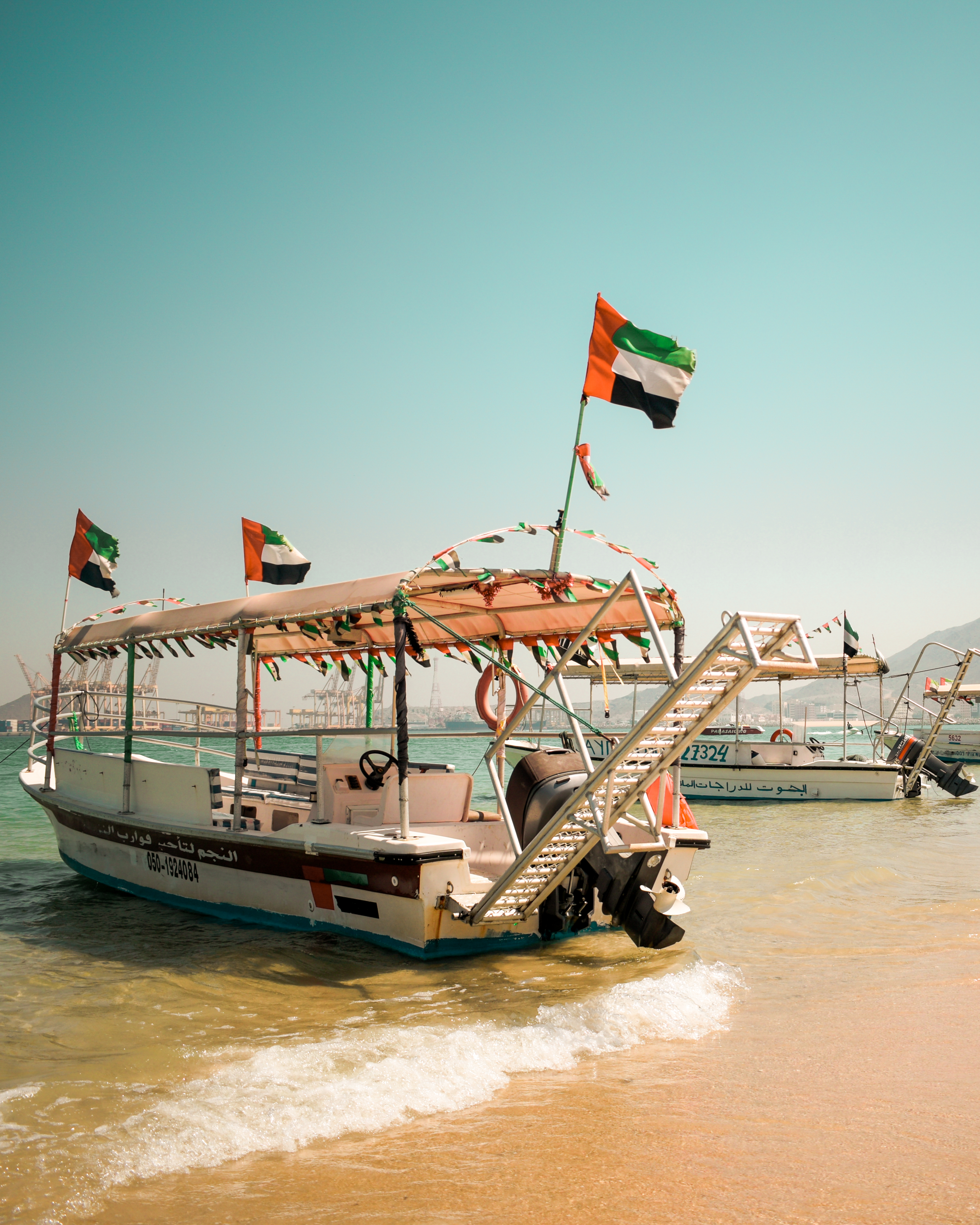 Boat in Khorfakkan Beach carrying the UAE flag